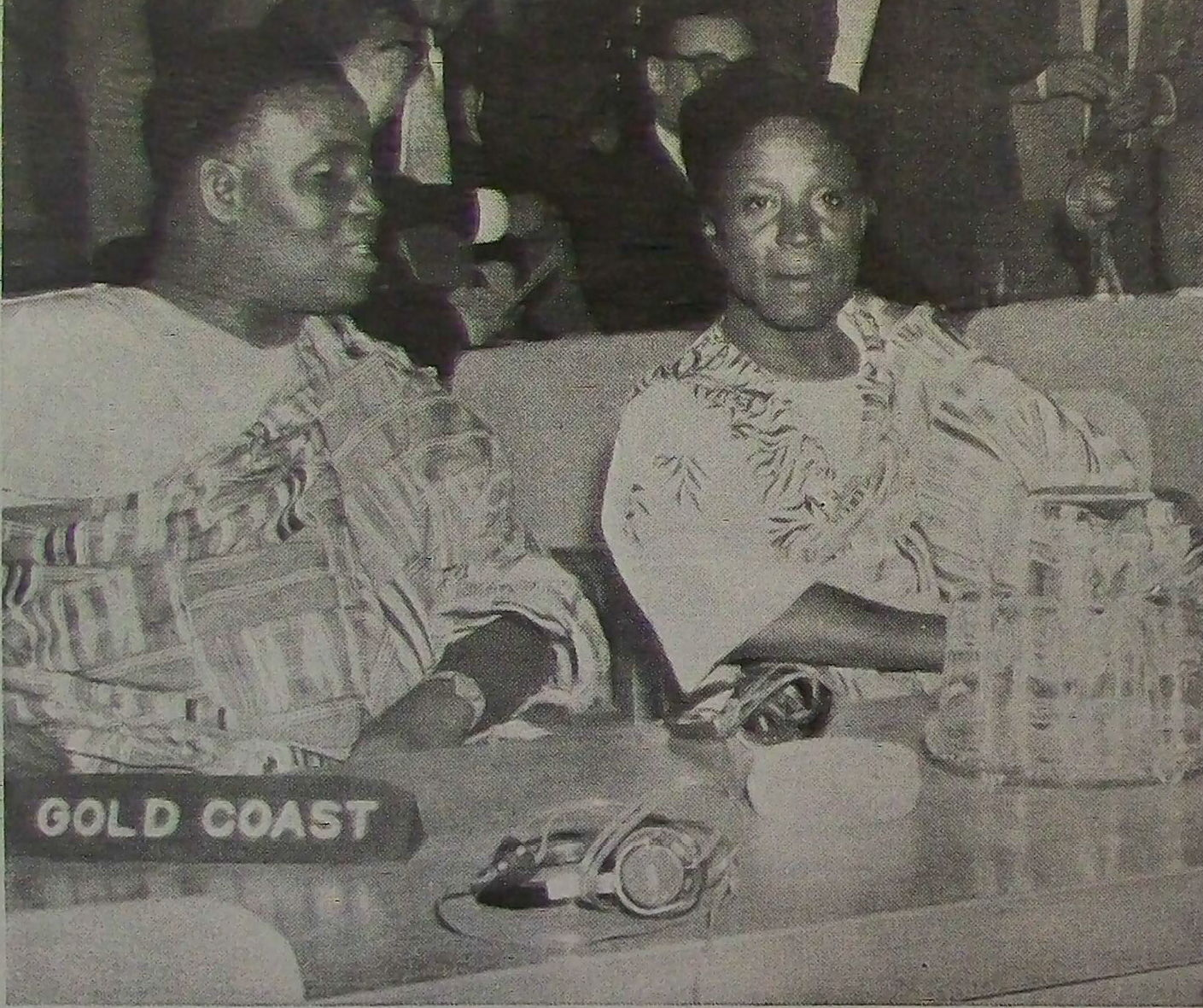 Kojo Botsio as a delegate of the Gold Coast in the Bandung Conference, 1955.